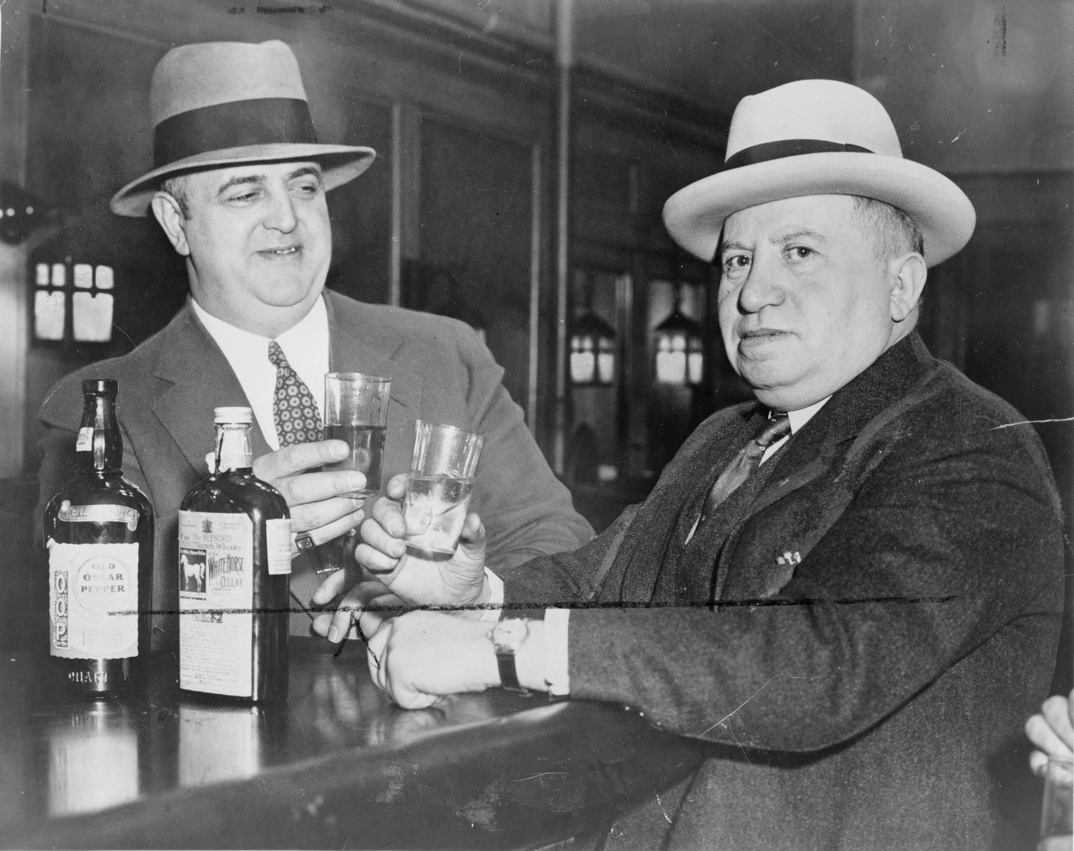 Izzy Einstein and Moe Smith, former police officers during Prohibition, sharing a toast in a New York Bar.